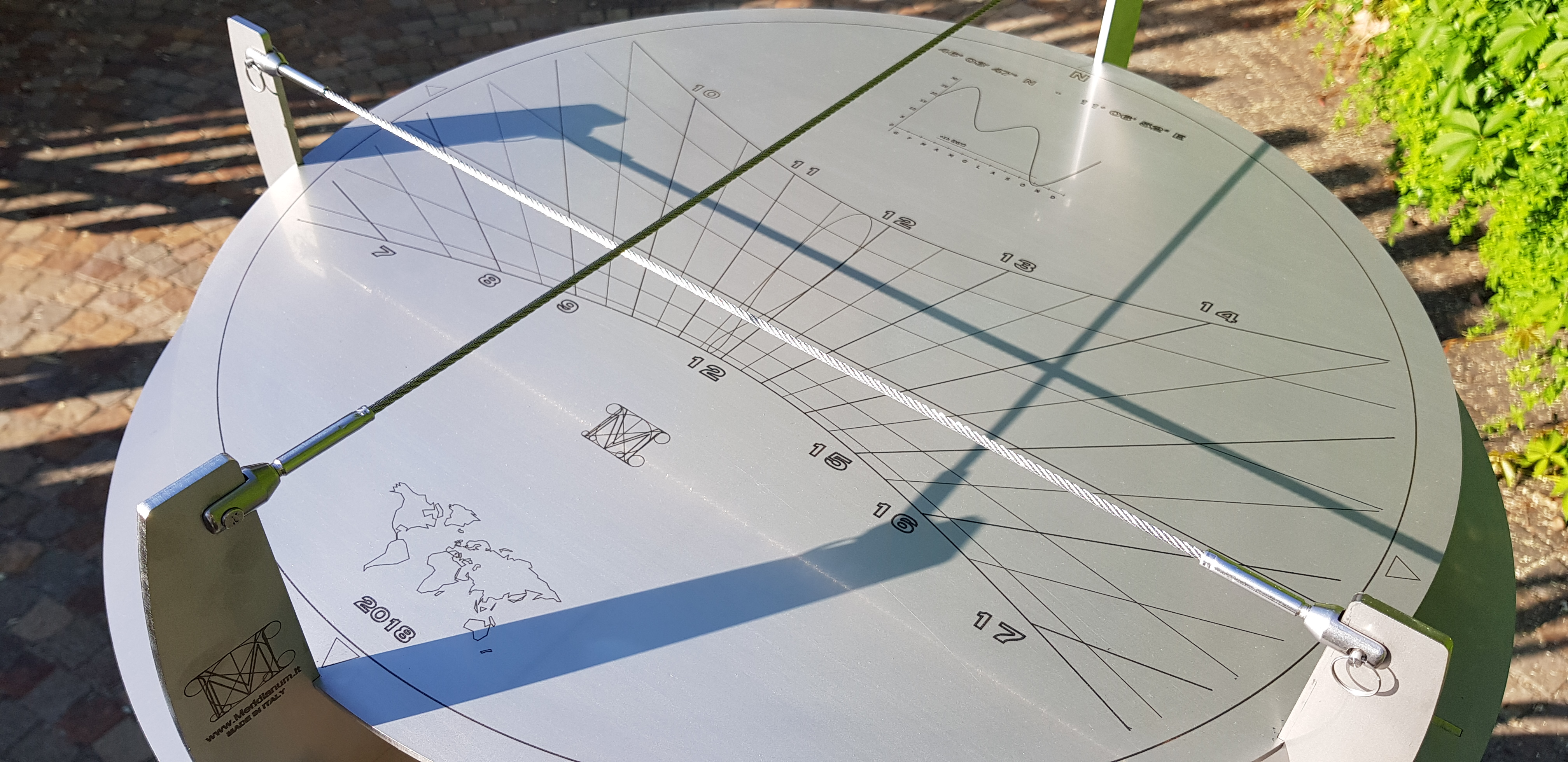 Stainless steel bifilar sundial. The 2 wires cast a shadow on the dial, indicating date and time. Also visible the analemma at 12 noon and the equation of time.